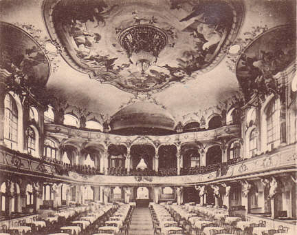 München, Germany: Deutsches Theater, interior view, postcard of ca. 1910